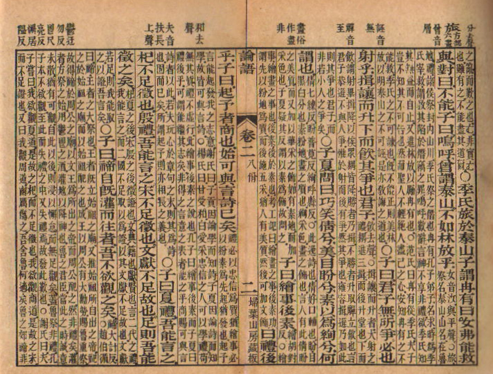 論語 巻二 八佾。Analects vol.2 Hachi-itsu.